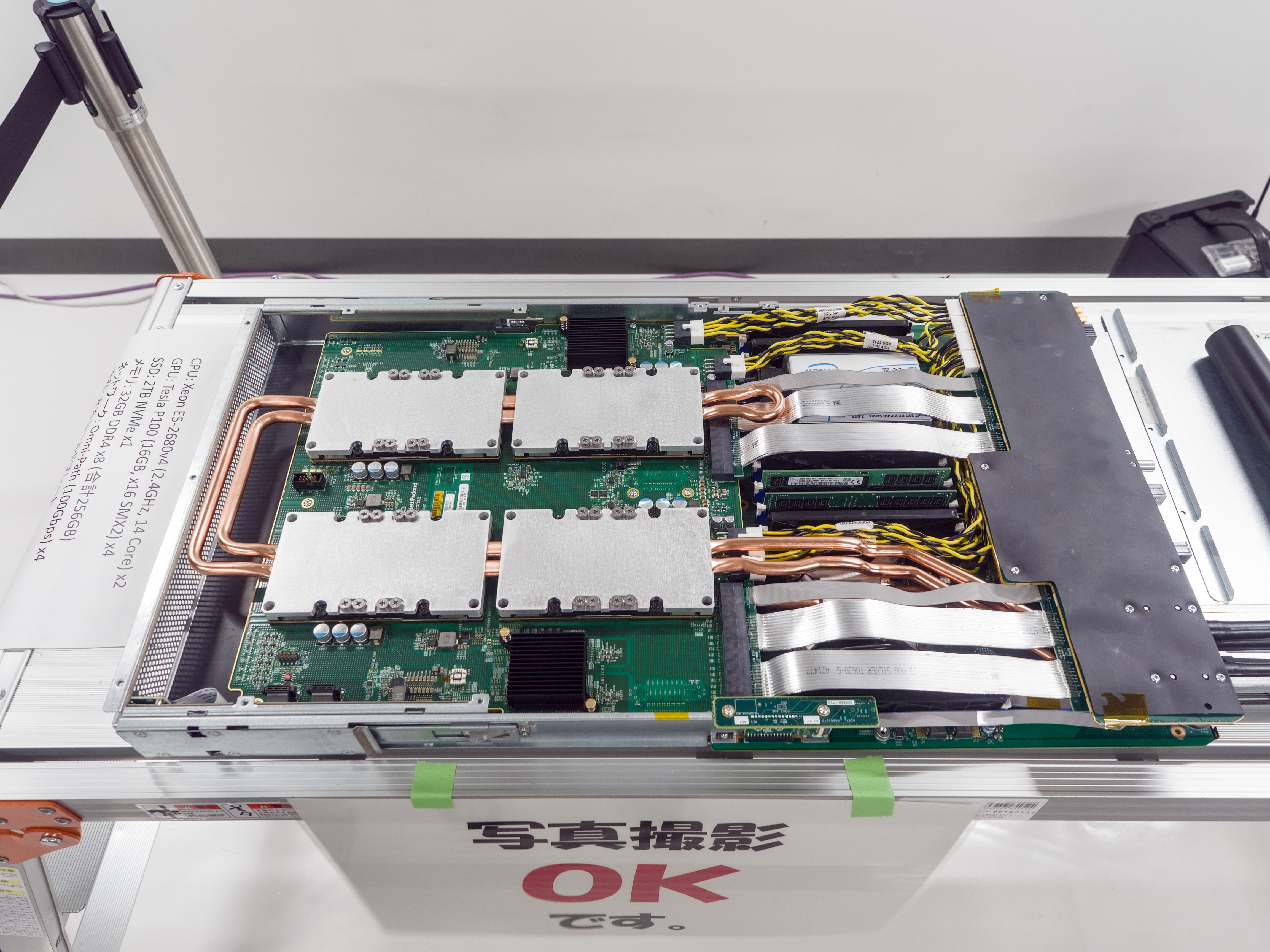 A computing node of TSUBAME 3.0 supercomputer. It consists of two Intel Xeon E5-2680v4, four NVIDIA Tesla P100, eight 32GB DDR4 SDRAM, a 2TB NVMe SSD, and four Omni-Path network connections. Photographed on the open house for Koudaisai, Tokyo Tech Festival and Open Campus.